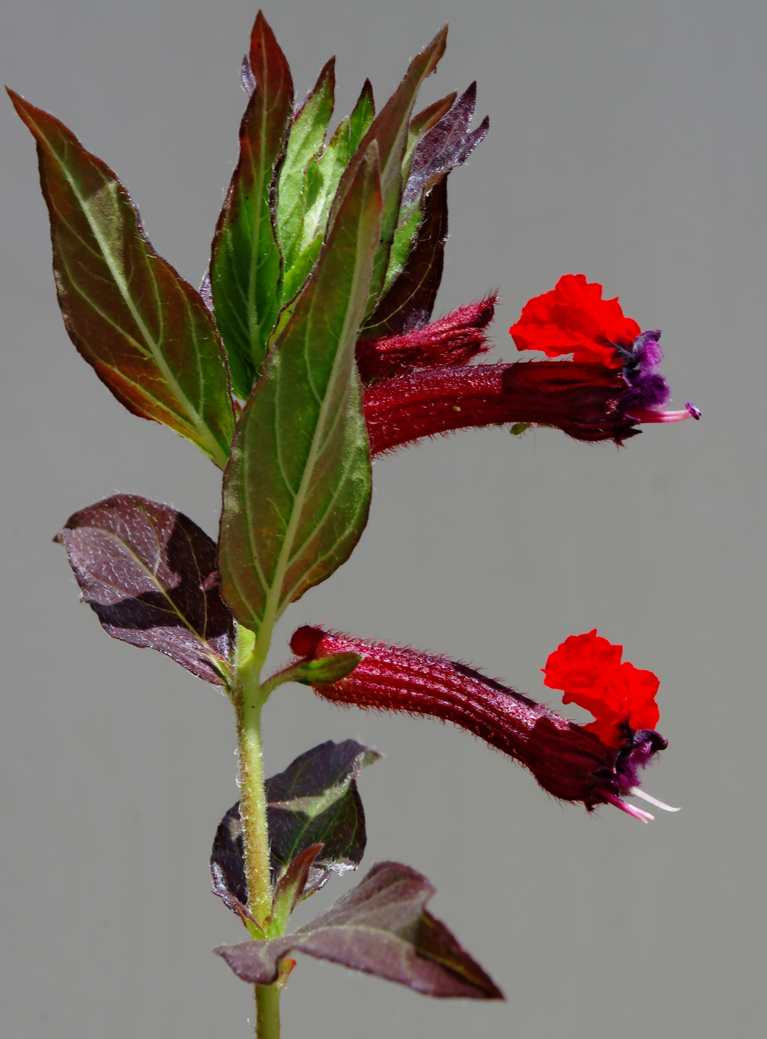 The bat-faced cuphea (Cuphea llavea), in a garden in France.